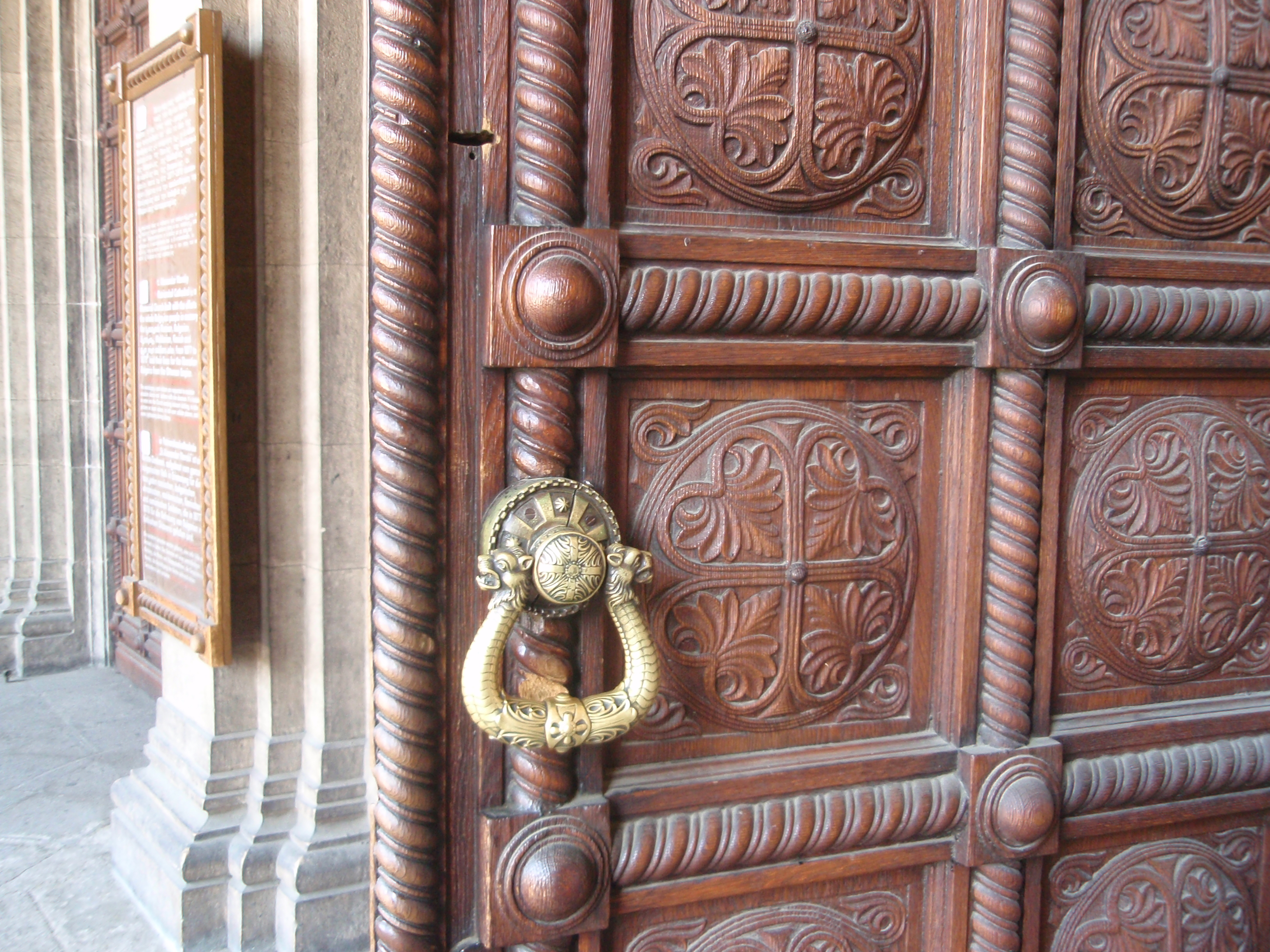 Temple-Monument "Alexander Nevski" Patriarchal Cathedral Church - central of three gates of the main entrance